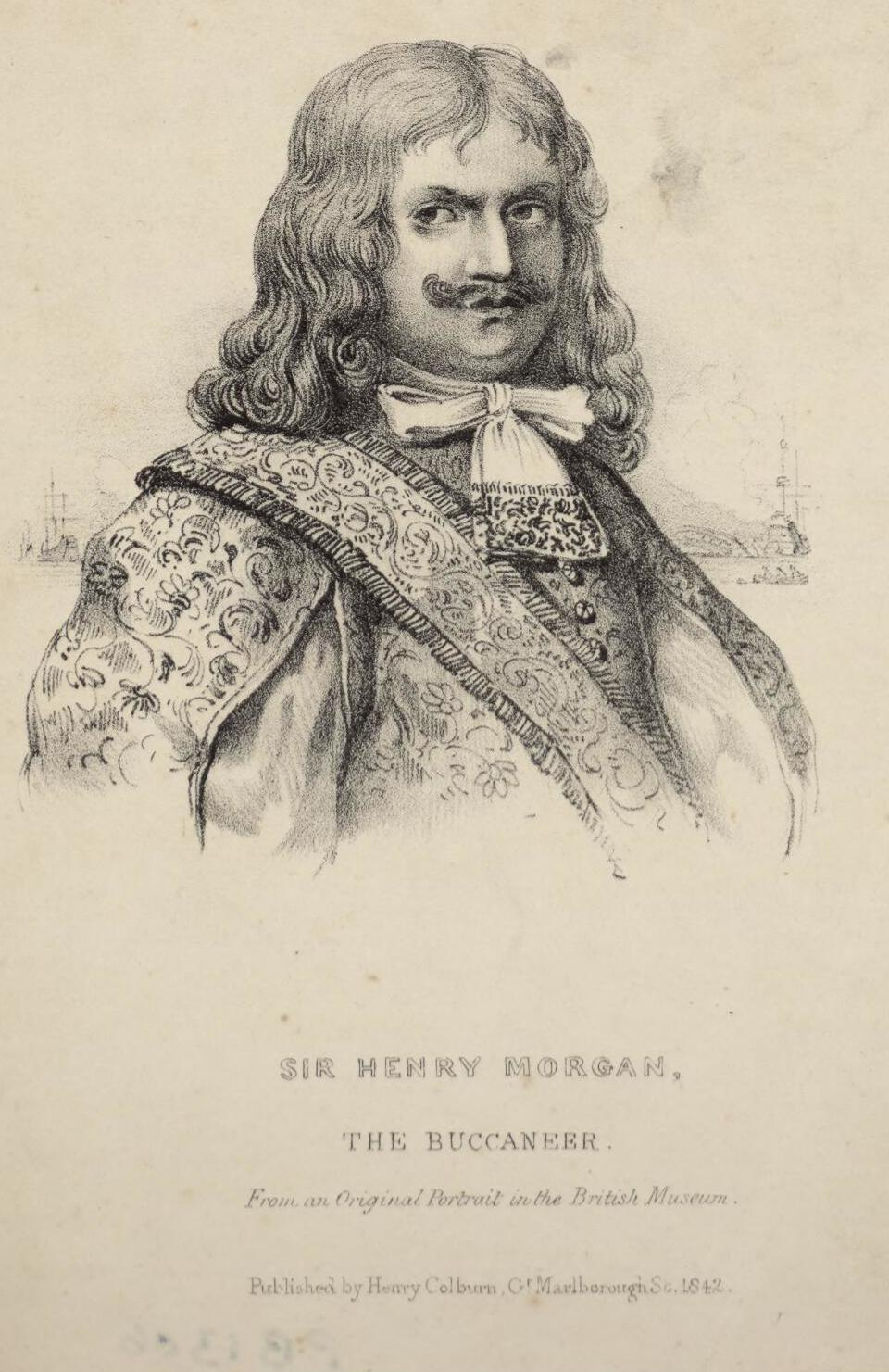 A portrait from the Welsh Portrait Collection at the National Library of Wales. Depicted person: Henry Morgan – Welsh pirate